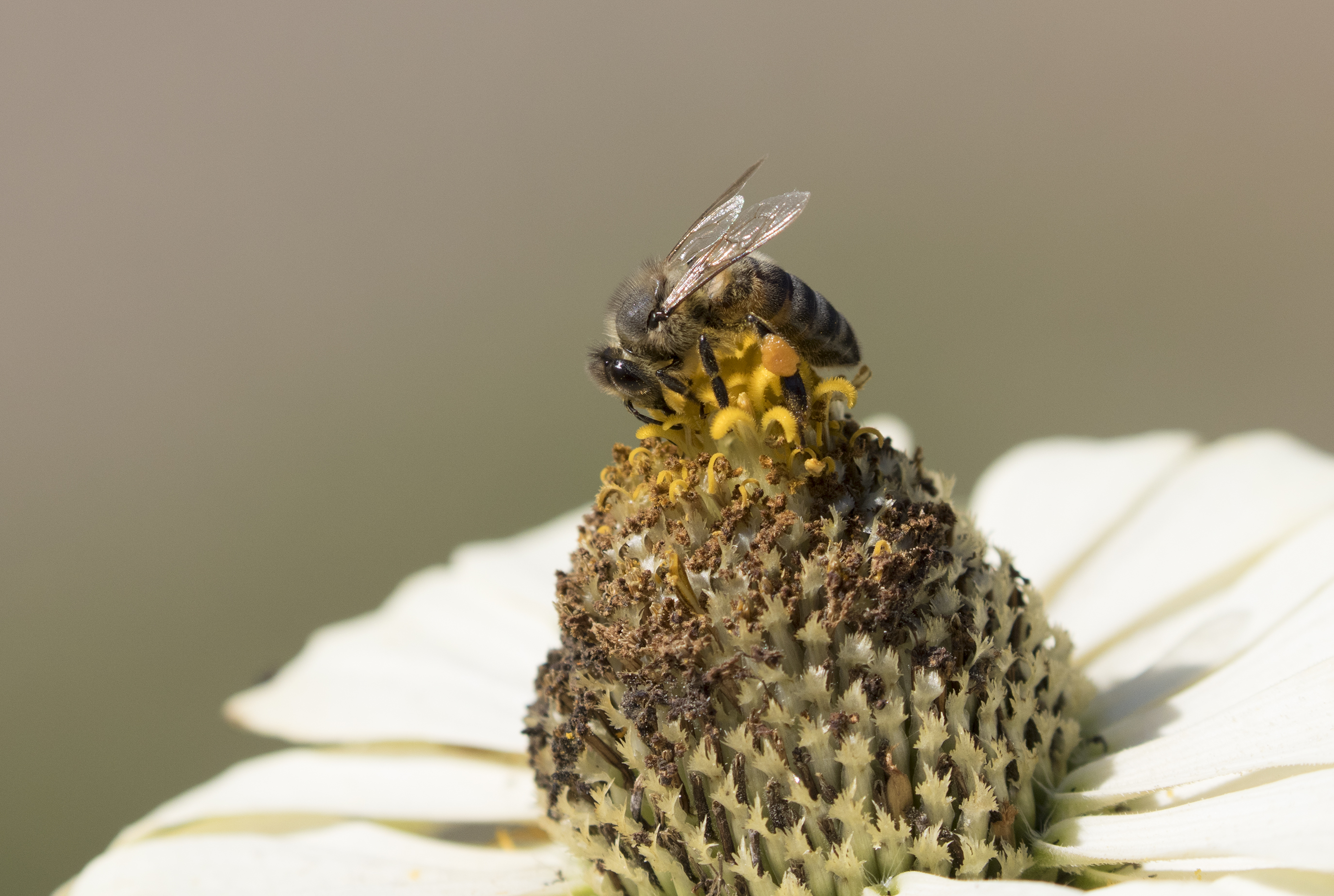 Probably a crossbred Caucasian honey bee (Apis mellifera caucasia). Espiye - Giresun, Turkey.